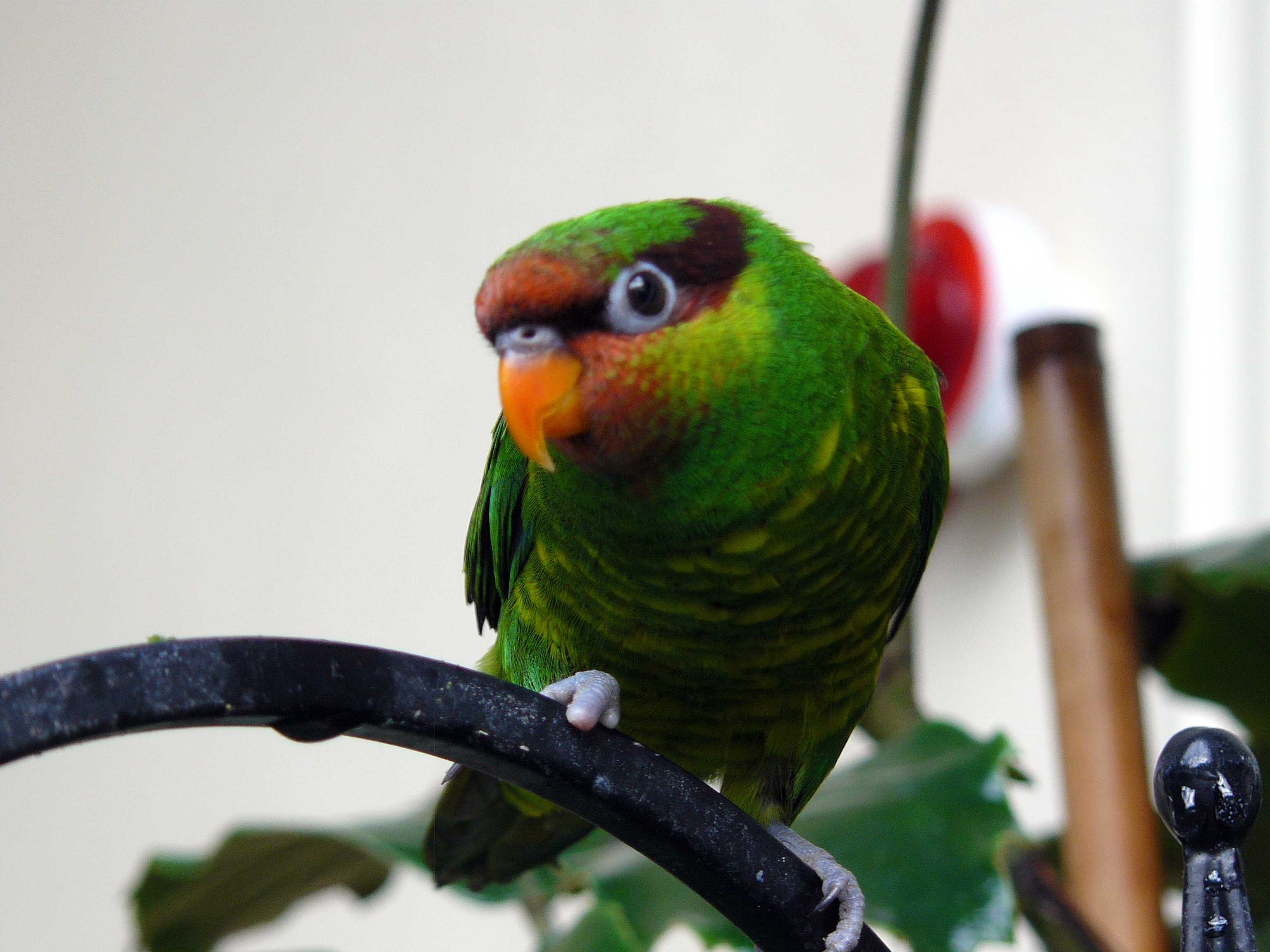 Mindanao Lorikeet (Trichoglossus johnstoniae) also known as Loriquet De Johnstone or Lori De Mindanao.